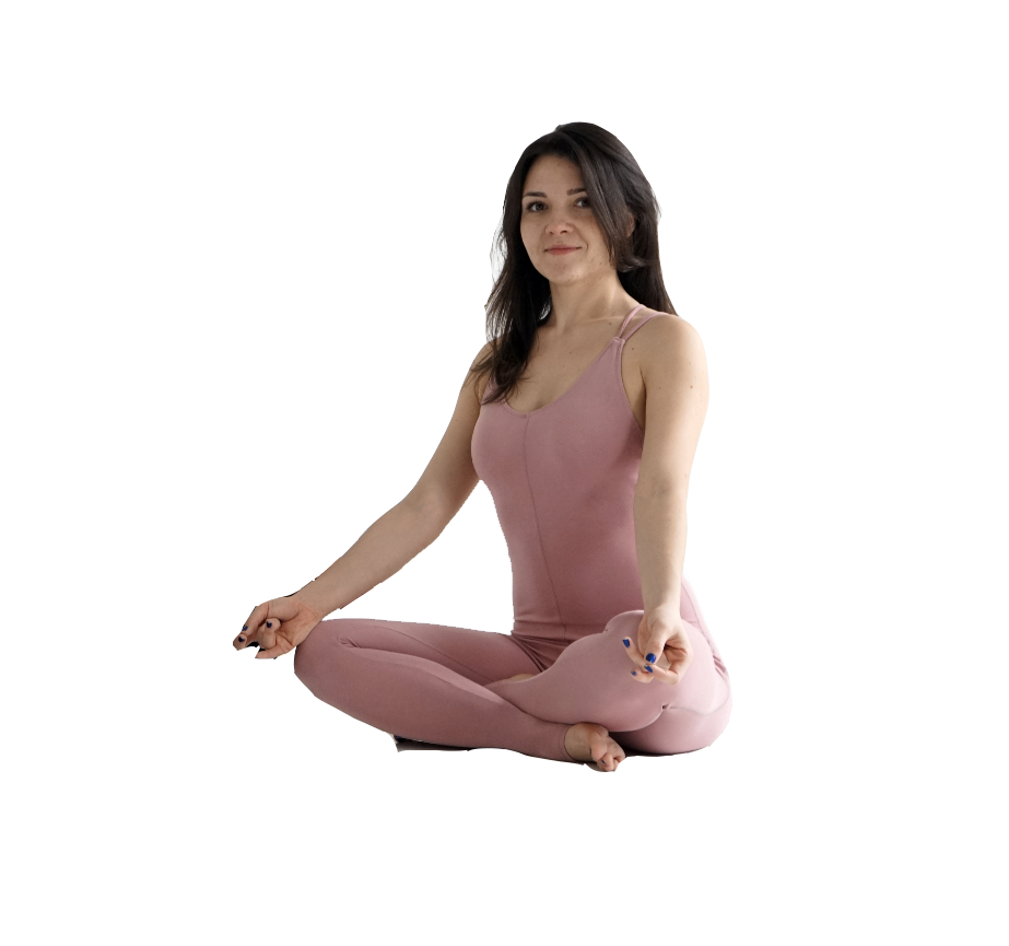 Sukhasana